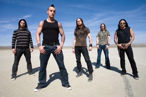 Rev Theory